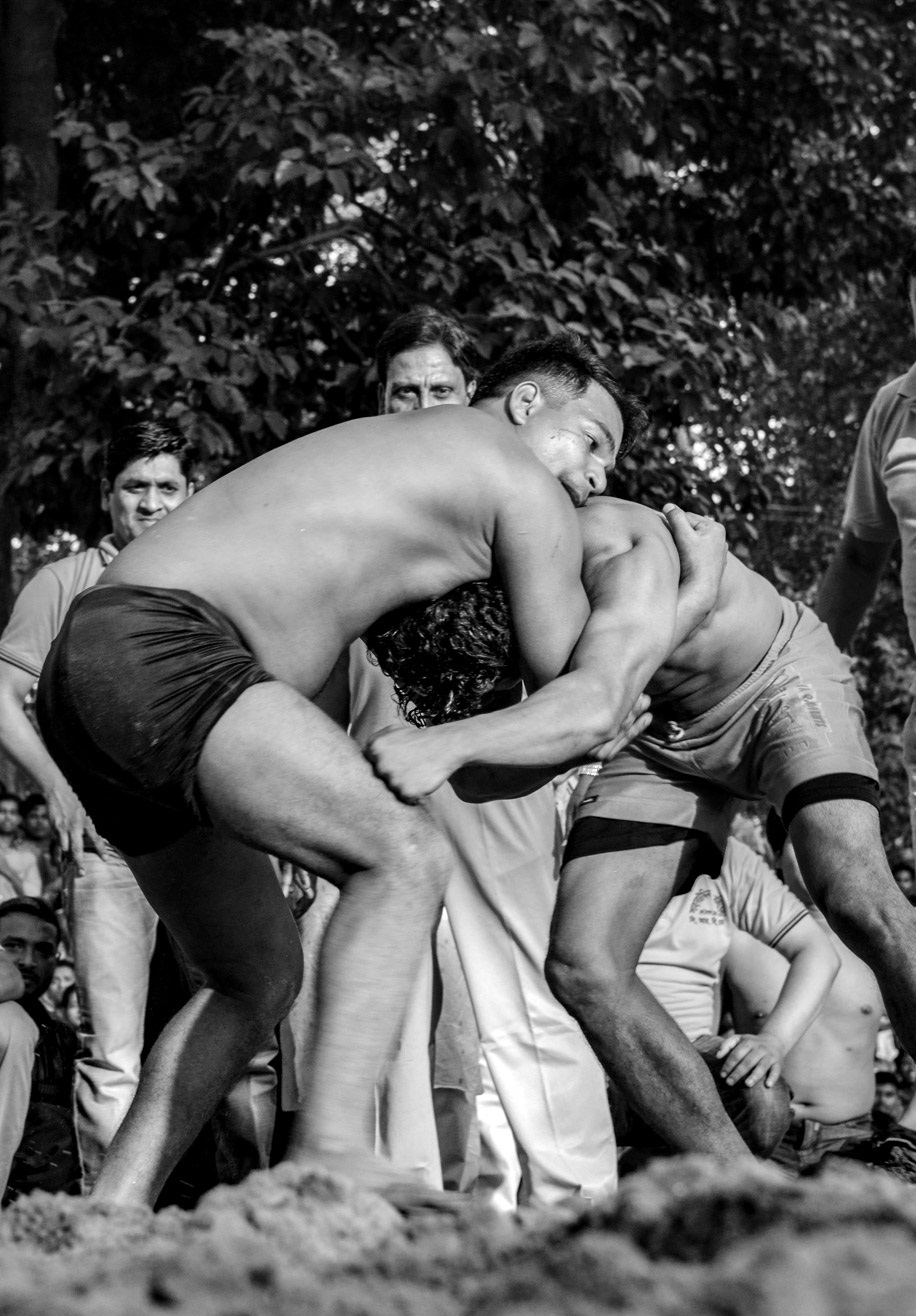 Two "Boli (Wrestler)" fighting in a wrestling match. "Boli Khela" is a local traditional wrestling game played between two "Boli" (wrestler). This event is hold on the first day of the Bengali new year in 14 April at Chittagong city of Bangladesh.